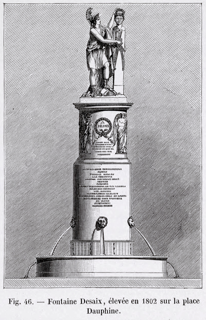 This print shows the Fontaine Desaix, erected by Napoleon in memory of Louis Charles Antoine Desaix de Veygoux, a French General and military leader who died on a campaign in Italy in 1800.